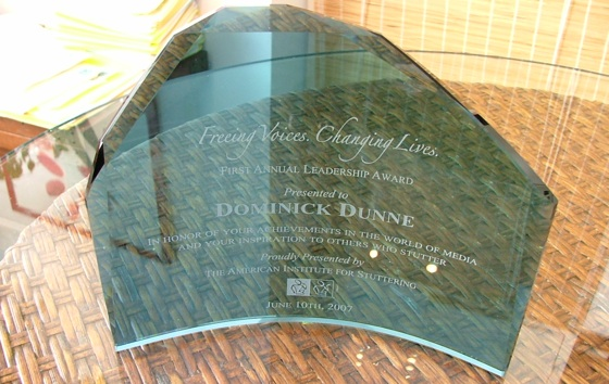 The Freeing Voices, Changing Lives award given by the American Institute for Stuttering to people who stutter who have achieved great professional success.